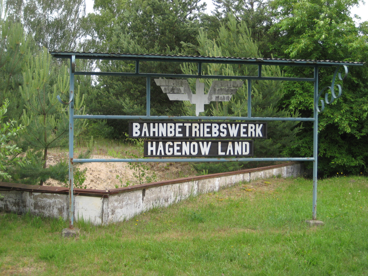 Hagenow Land railway service